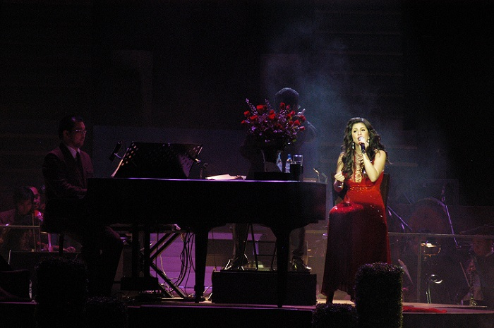 Regine Velasquez performing during her 20th Anniversary Concert